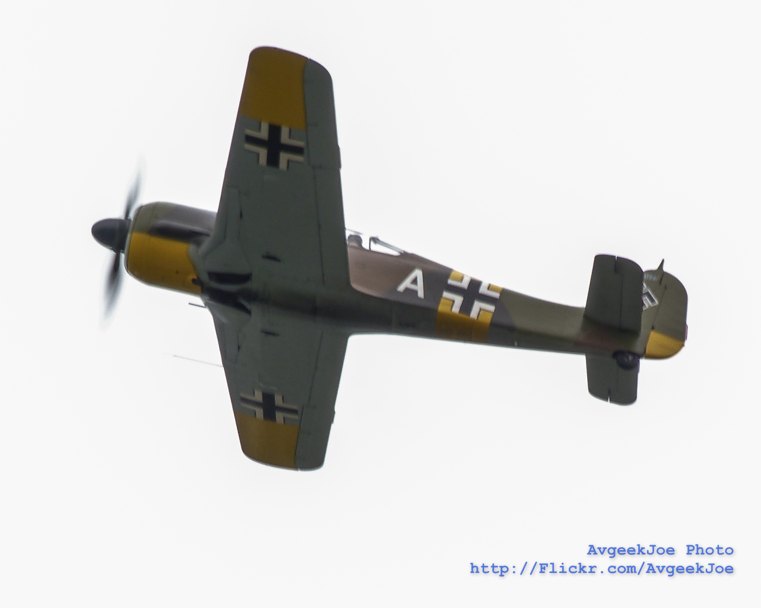 Steve Hinton Reaching for the Skies in the Fw 190! One of the few good pictures I got the whole Fly Day. Sadly of the "Butcher Bird" that for a while was successful in downing Allied warplanes in WWII. Since I recently caught Flying Heritage Collection's (FHC's) Fw 190 A-5 on a maintenance flight, figured a Flashback Friday deserved these June 2012 snaps. All but one photo is from the 16 June 2012 FHC Fly Day. Flashback Fridays like these allow me to see how much my aviation photography has progressed in just two years. Among other things, I've gotten better at panning and realized getting a great picture with prop blur requires a filter on the end of my camera.